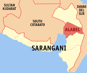 Map of the Sarangani showing the location of Alabel